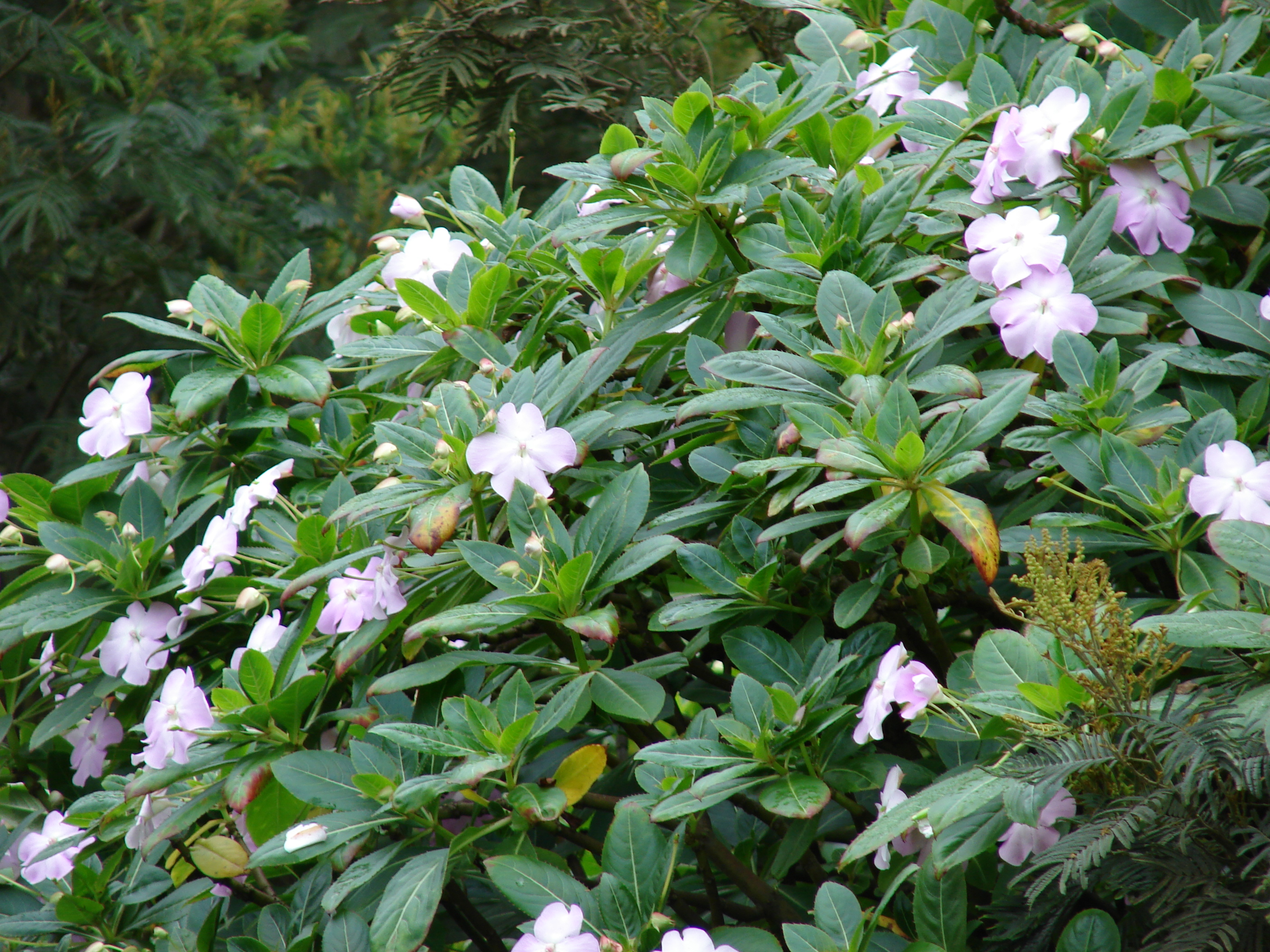 Impatiens sodenii (flowering habit). Location: Maui, Crater Rd Kula